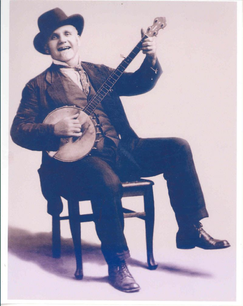 Promotional photograph of Uncle Dave Macon